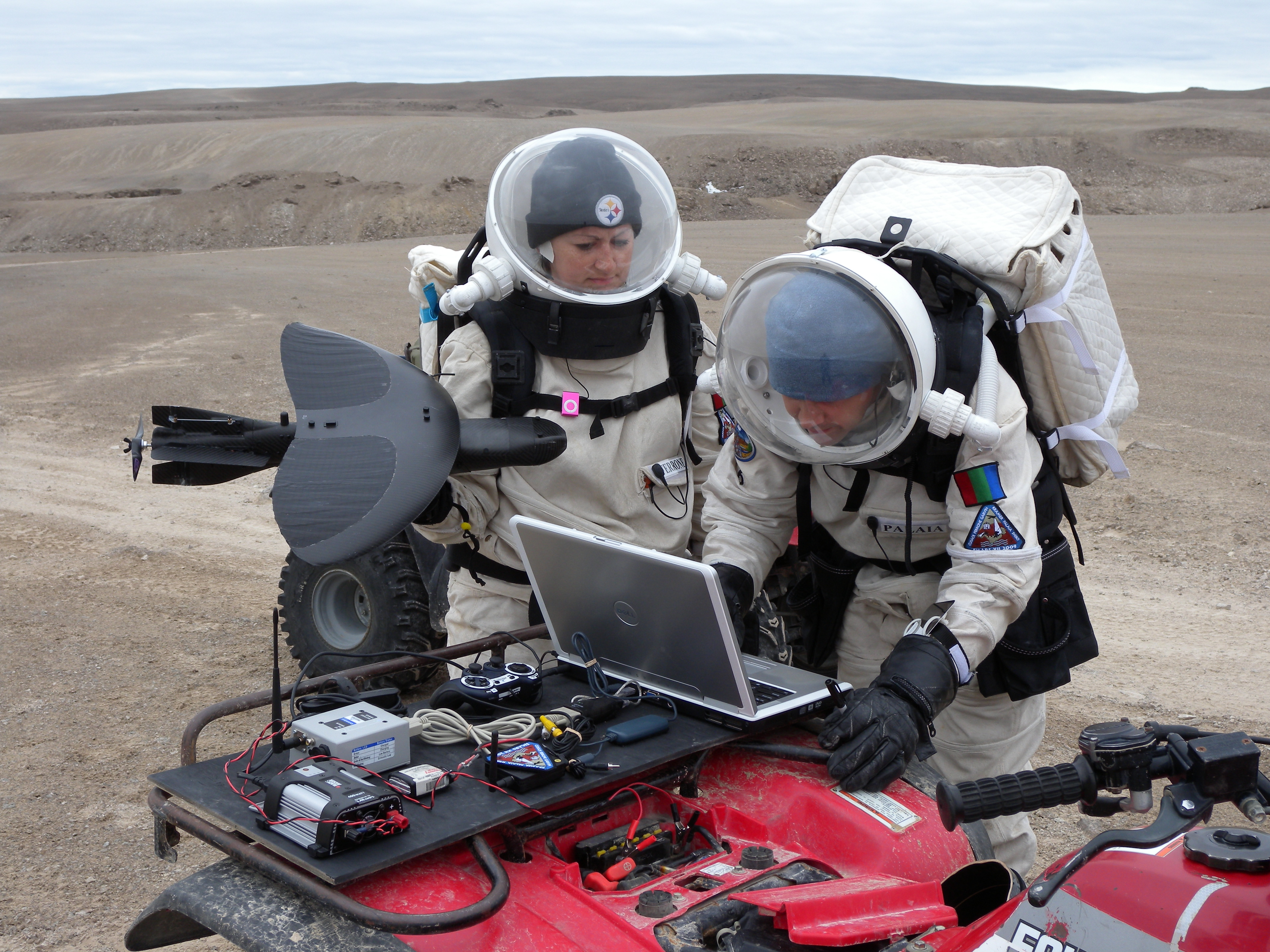 Photograph taken at the Flashline Mars Arctic Research Station (FMARS) on Devon Island, Canadian Arctic. Featured are Kristine Ferrone and Joseph Palaia and Prioria Unmanned Aerial Vehicle (UAV).